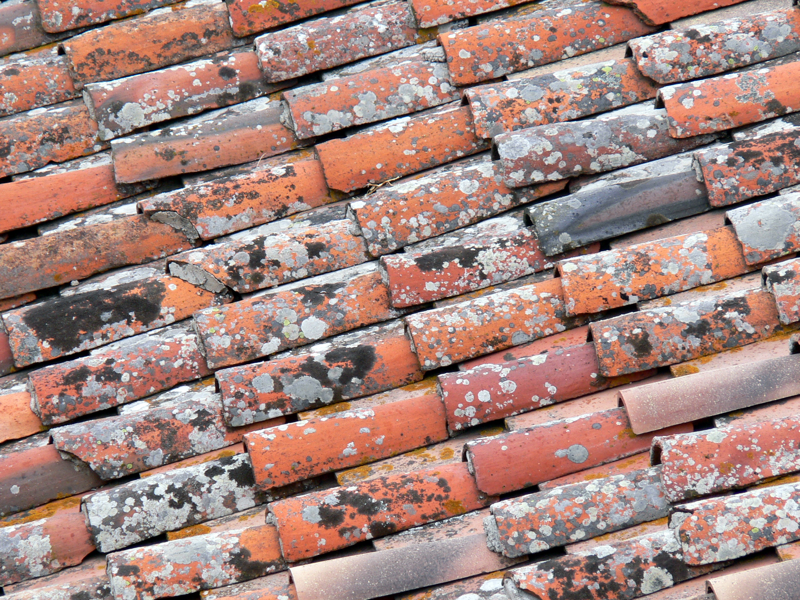 Marciana Alta ( Elba ). Roof tiles.